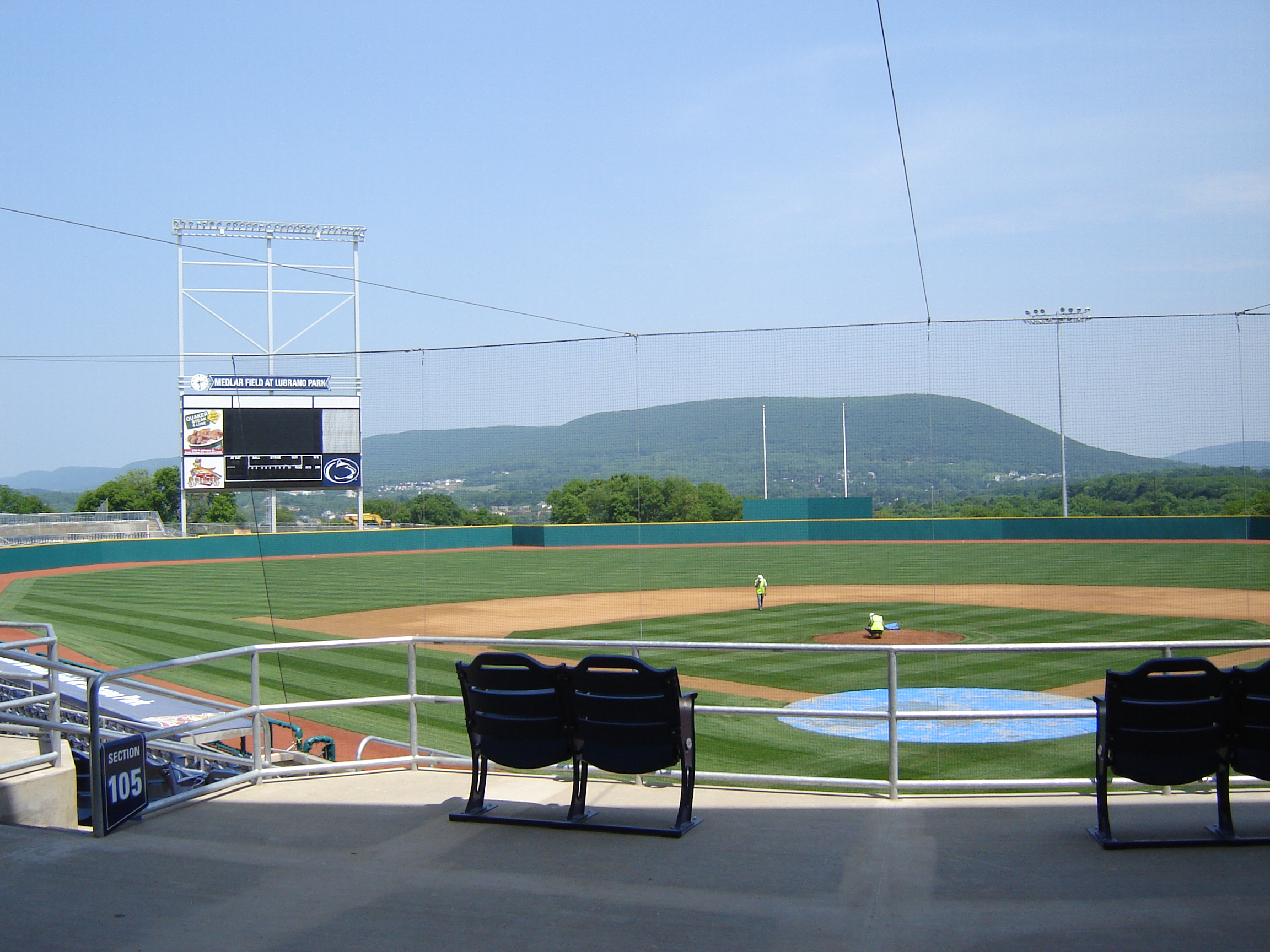 An interior view of Medlar Field at Lubrano Park on the campus of the Pennsylvania State University taken May 2006. Mount Nittany can be seen in the distance. Opening Day is scheduled for June 20, 2006.